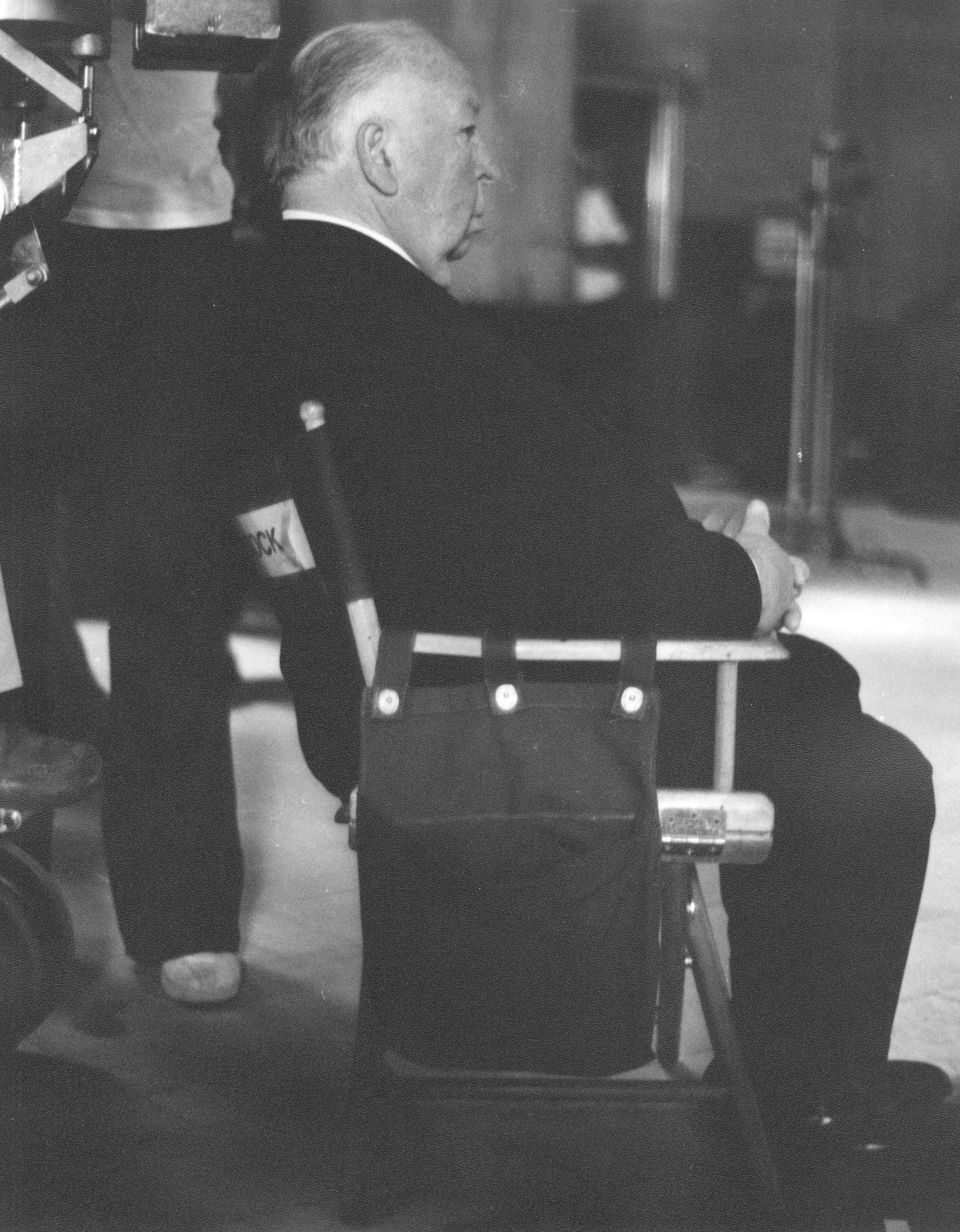 Alfred Hitchcock directing Family Plot inside Grace Cathedral, San Francisco, California. This is a scan of an 8x10 B&W print made from a 35mm B&W negative. The picture was taken between takes without flash while holding the camera steady on top of the 1st row pew.